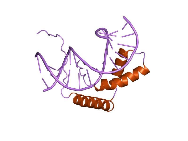 Cartoon representation of the molecular structure of protein registered with 1j46 code.